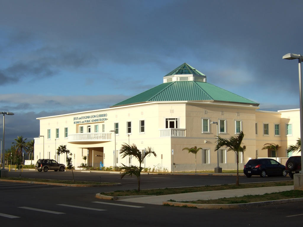 Jesus & Eugenia Leon Guerrero Business & Public Administration Building at the University of Guam